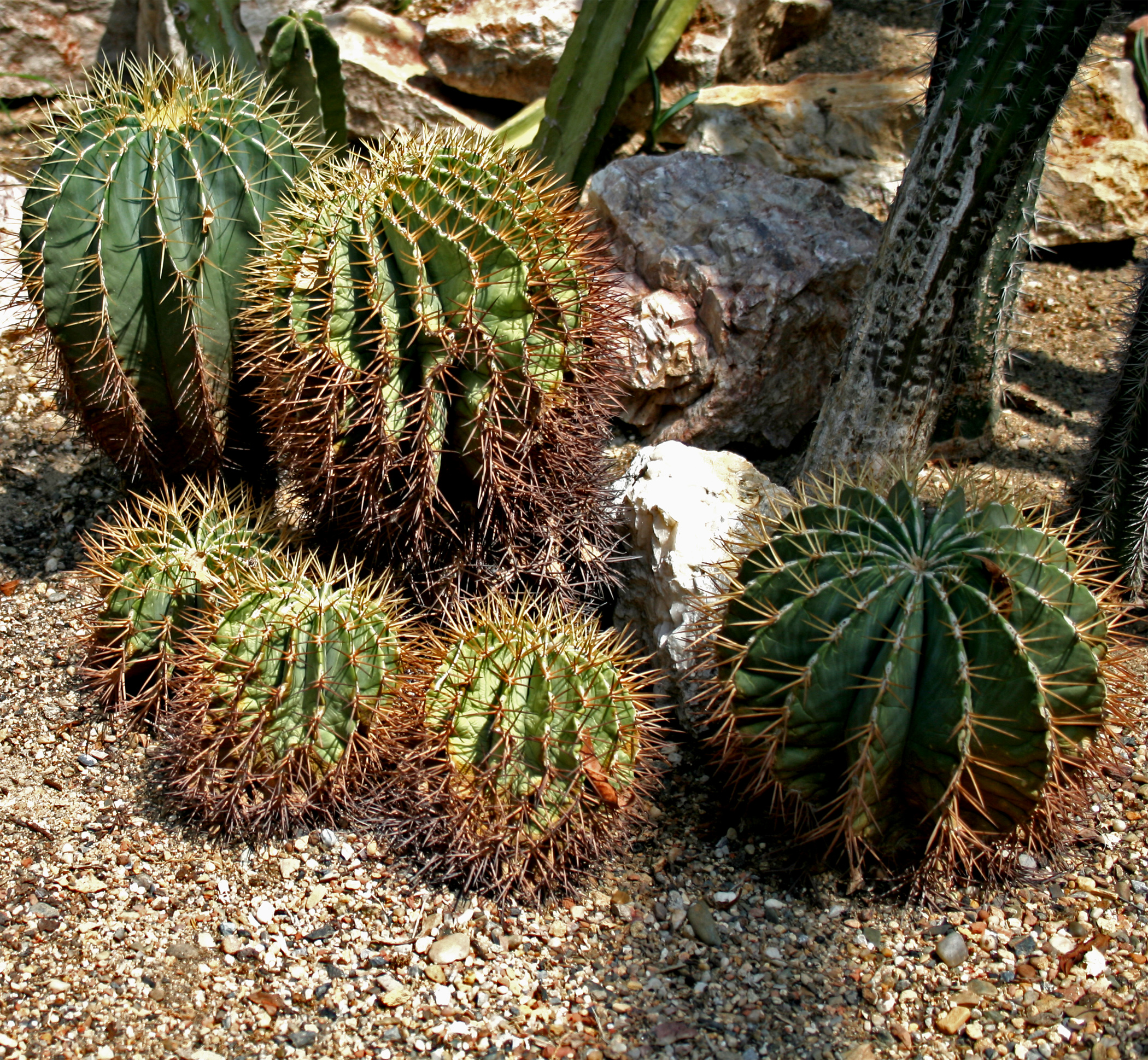 Cactus Ferocactus glaucescens from the Botanical Gardens of Charles University, Prague